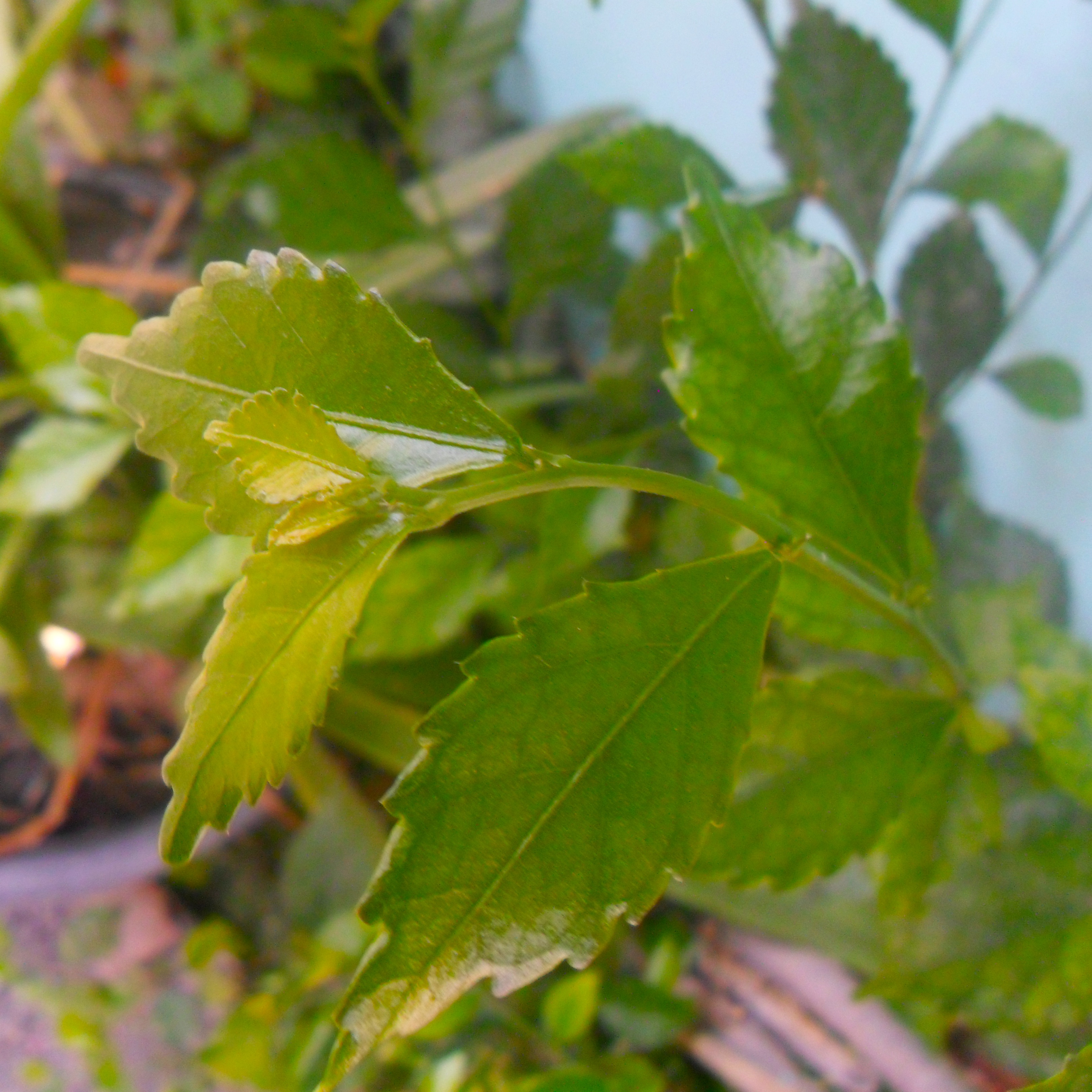 Acalypha siamensis